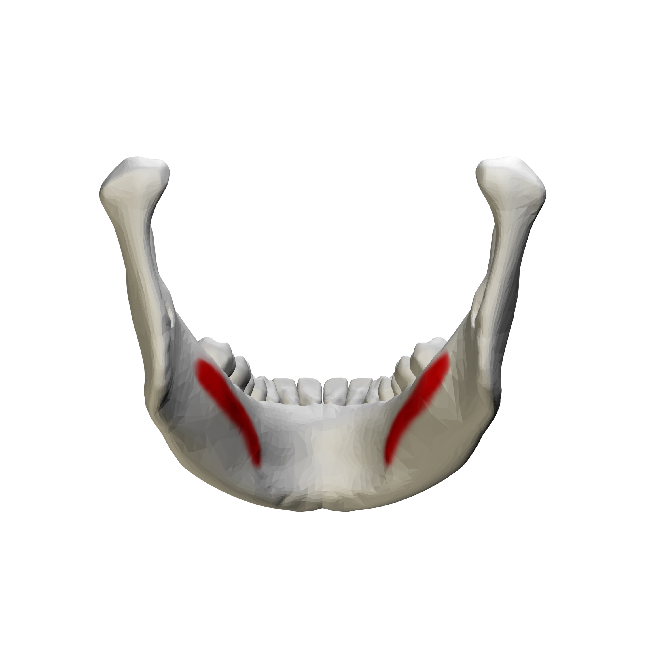 Mylohyoid line of mandible. Shown in red.